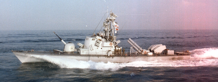 Saar 3, Israel Defense Forces